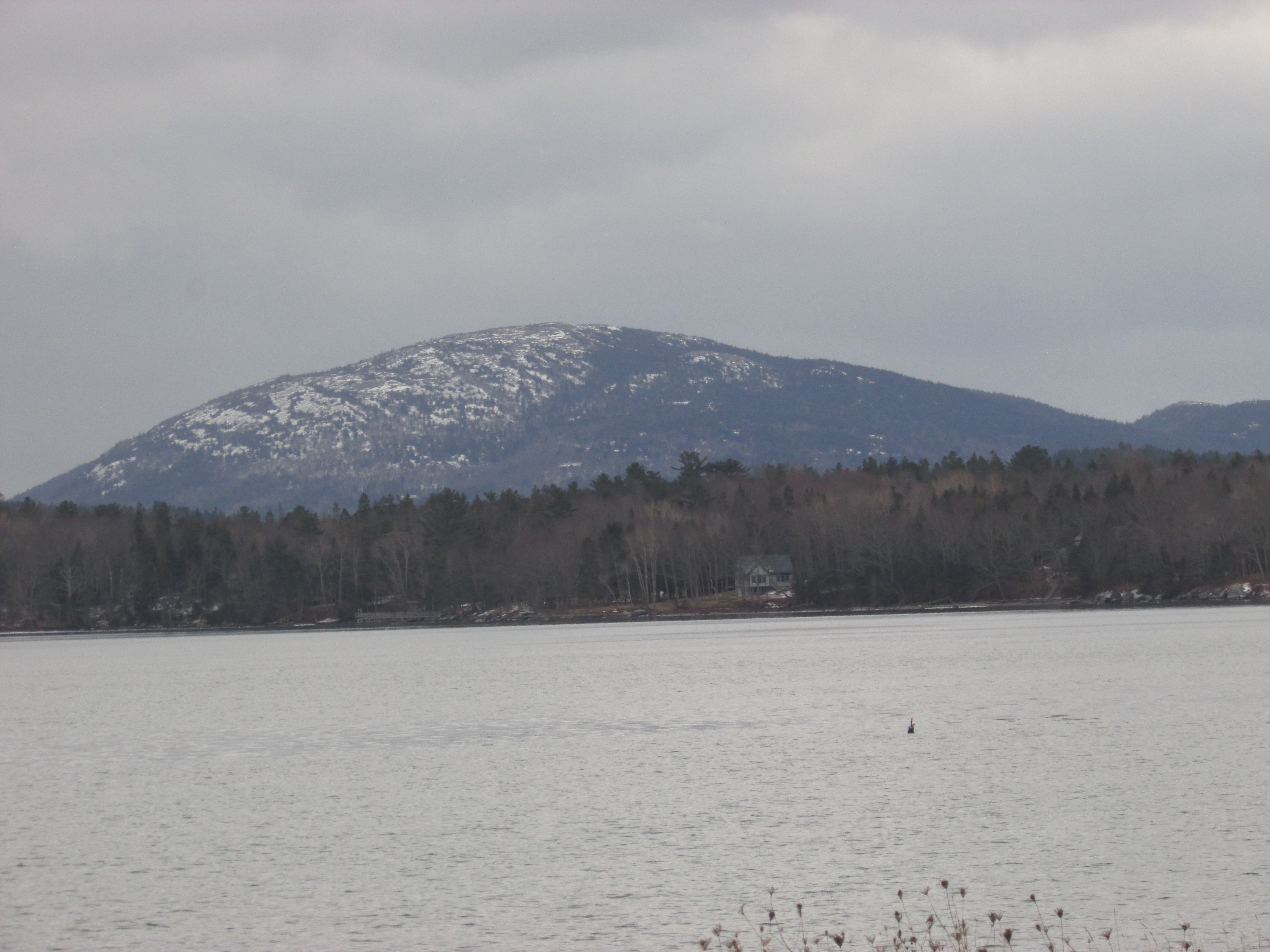 Image taken at Lamoine State Park in winter. Along East Bay & Frenchman's Bay. East Lamoine, Maine.